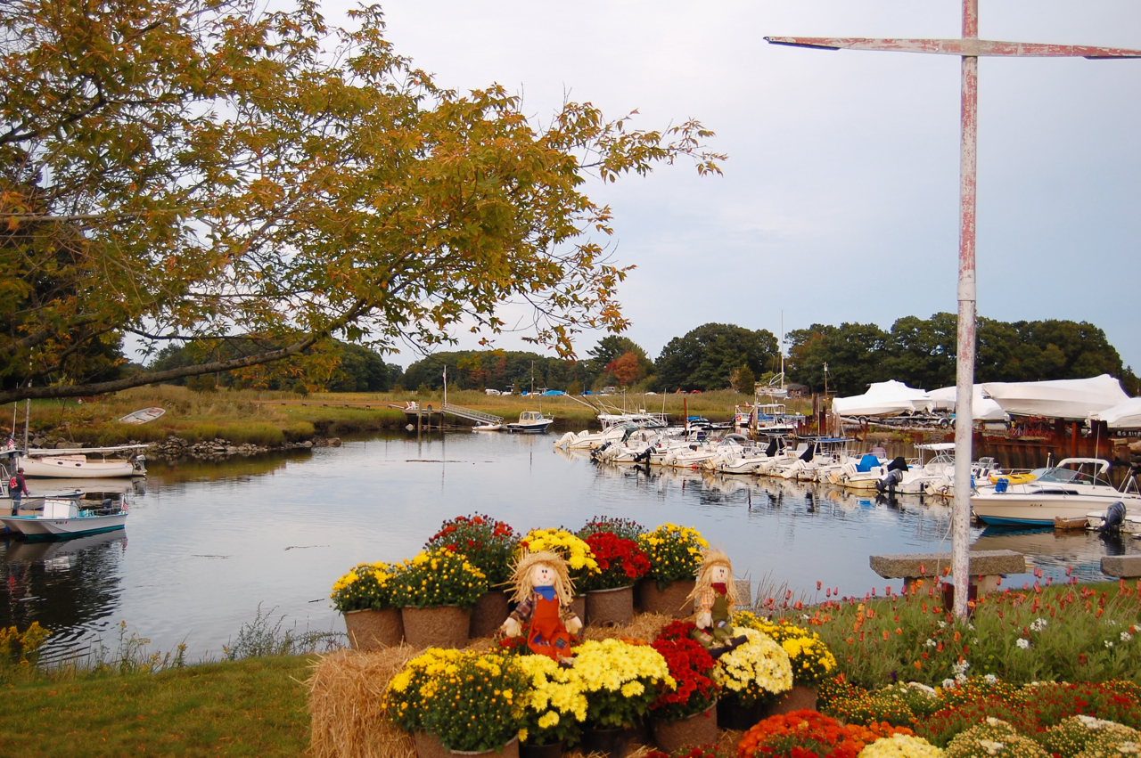 Marina and wetlands in Essex, Massachusetts, located on the Essex River, in early autumn.